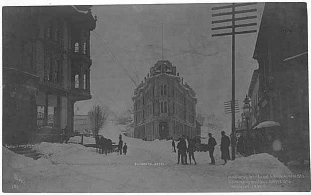 Caption on image: Occidental Hotel, Yesler-Leary Bldg., Junction of Mill and Commercial Sts., Winter of 1884-5. Peiser 121 . Copied by Webster and Stevens. See PH Coll 749.1 Subjects (LCTGM): Snow--Washington (State)--Seattle; Utility poles--Washington (State)--Seattle